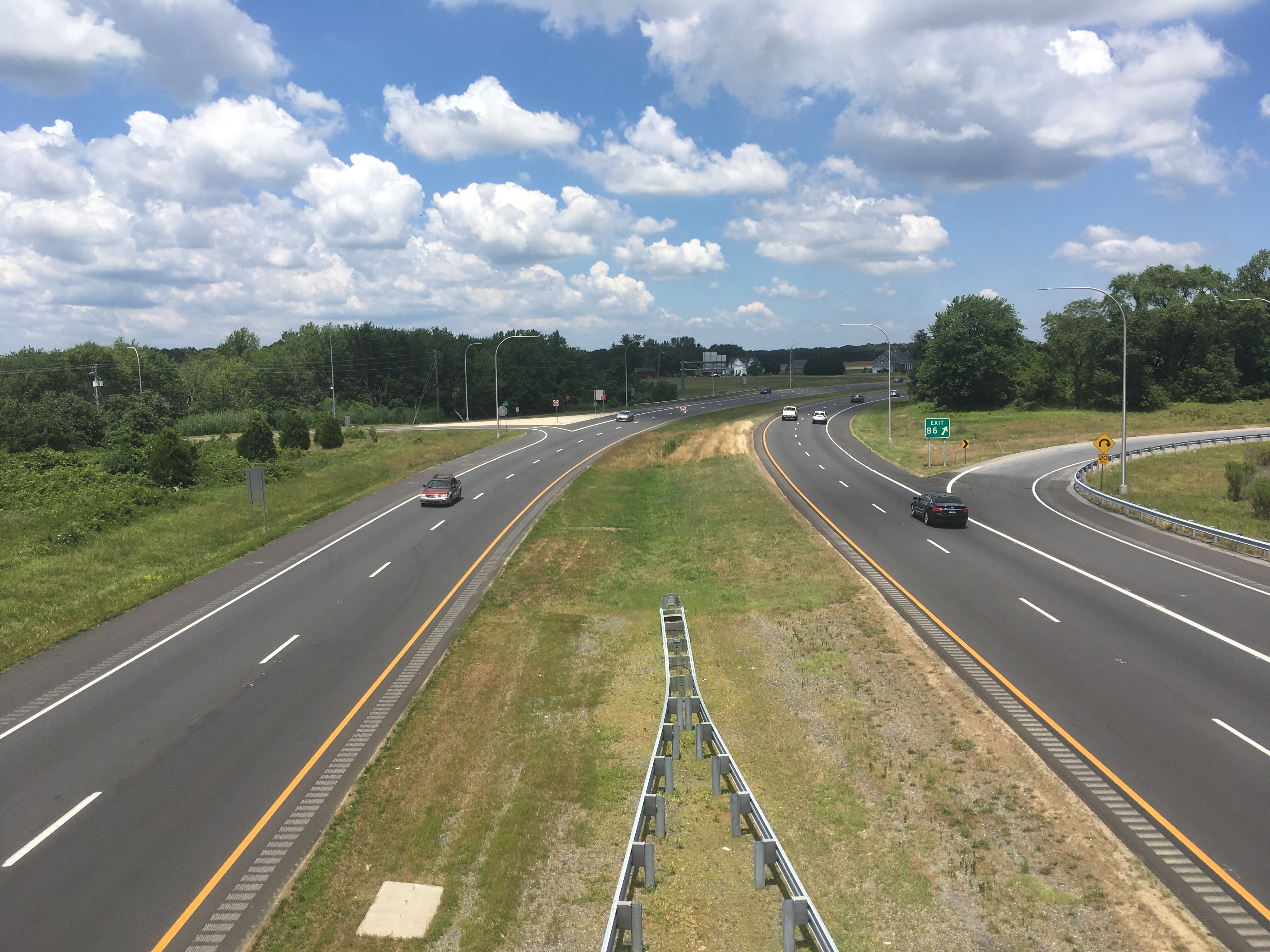 Northbound Delaware Route 1 (Bay Road) from the overpass at the interchange with Delaware Route 12 (exit 86) in Frederica, Delaware